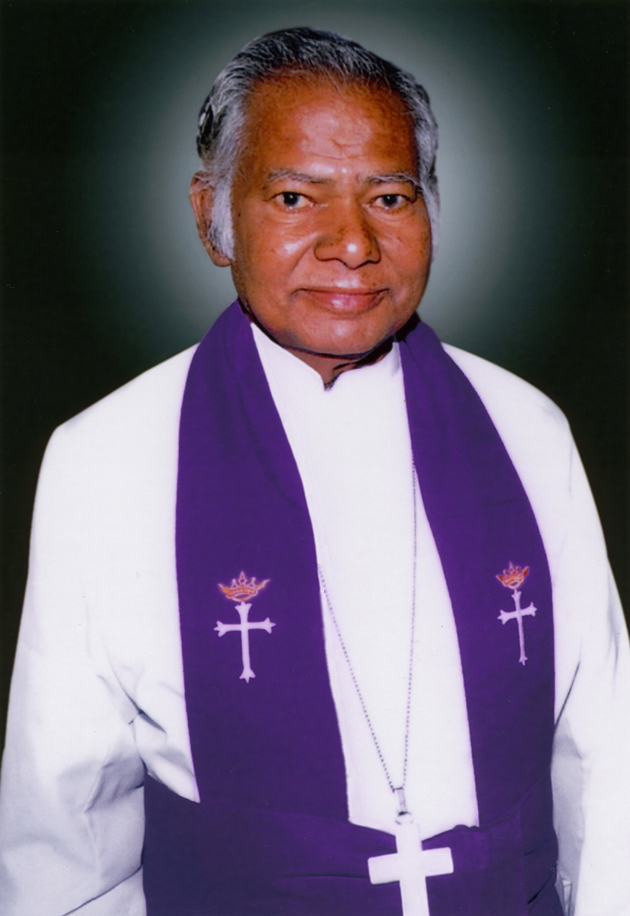 The 9. Bishop of Tranquebar Jubilee Gnanabaranam Johnson of the Tamil Evangelical Lutheran Church of Tamil Nadu.